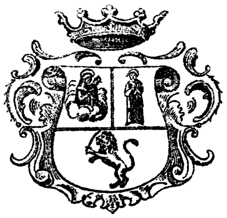 Alternative version of the city's coat of arms, taken from a map.Note: derivative (cropped part) of historic map (IASu-1884 orig.jpg) from 1884